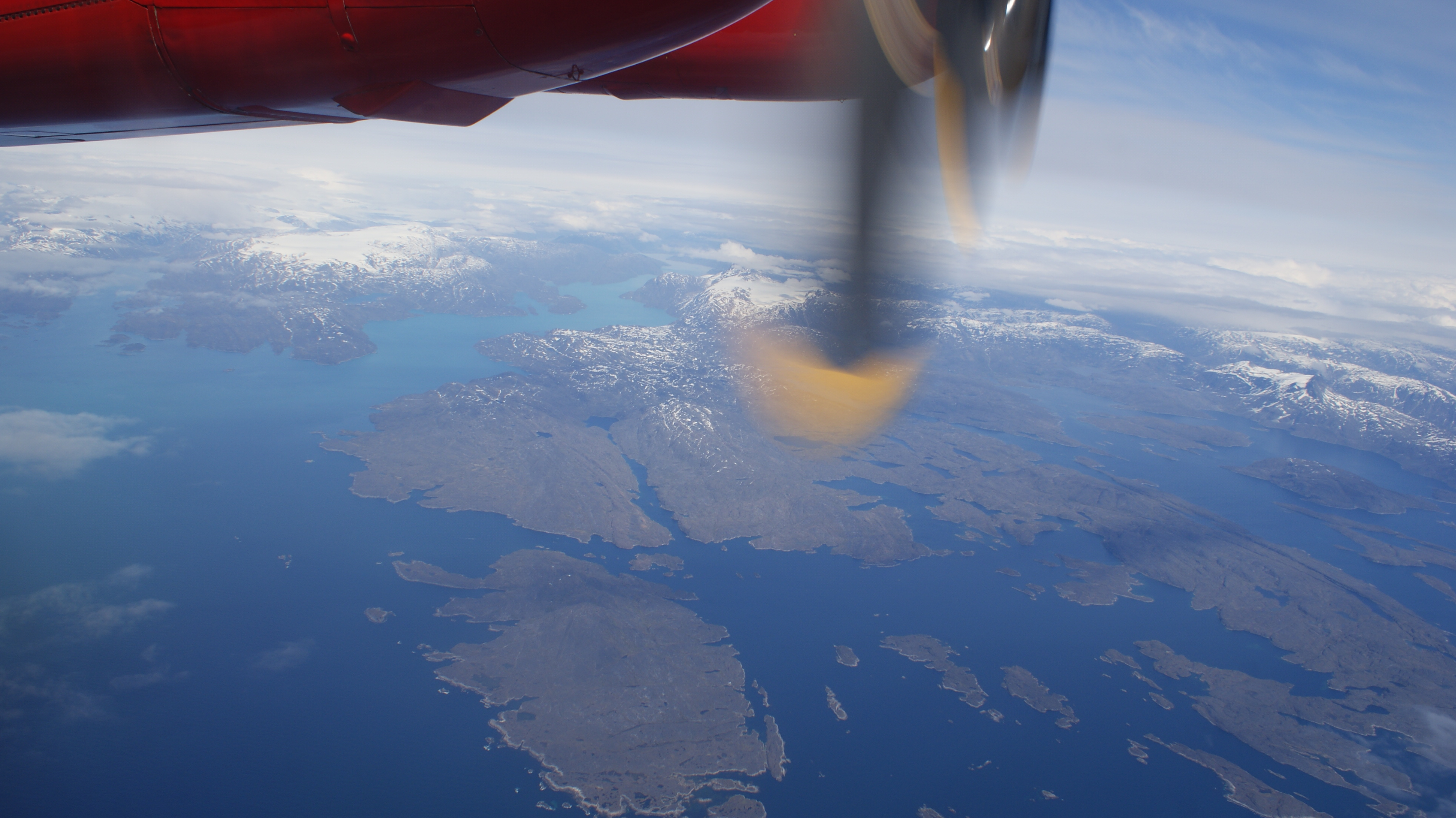 Isortoq Fjord, Greenland. Photographed from the Air Greenland de Havilland Canada Dash-7 ""Sululik"" during the Sisimiut-Nuuk flight.